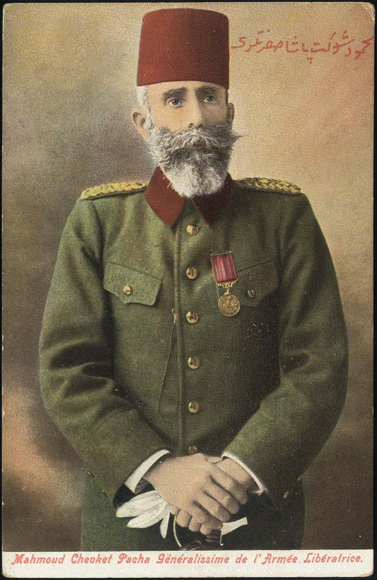 Postcard: "Mahmut Shevket Pasha Generalissimo of the Liberating Army."